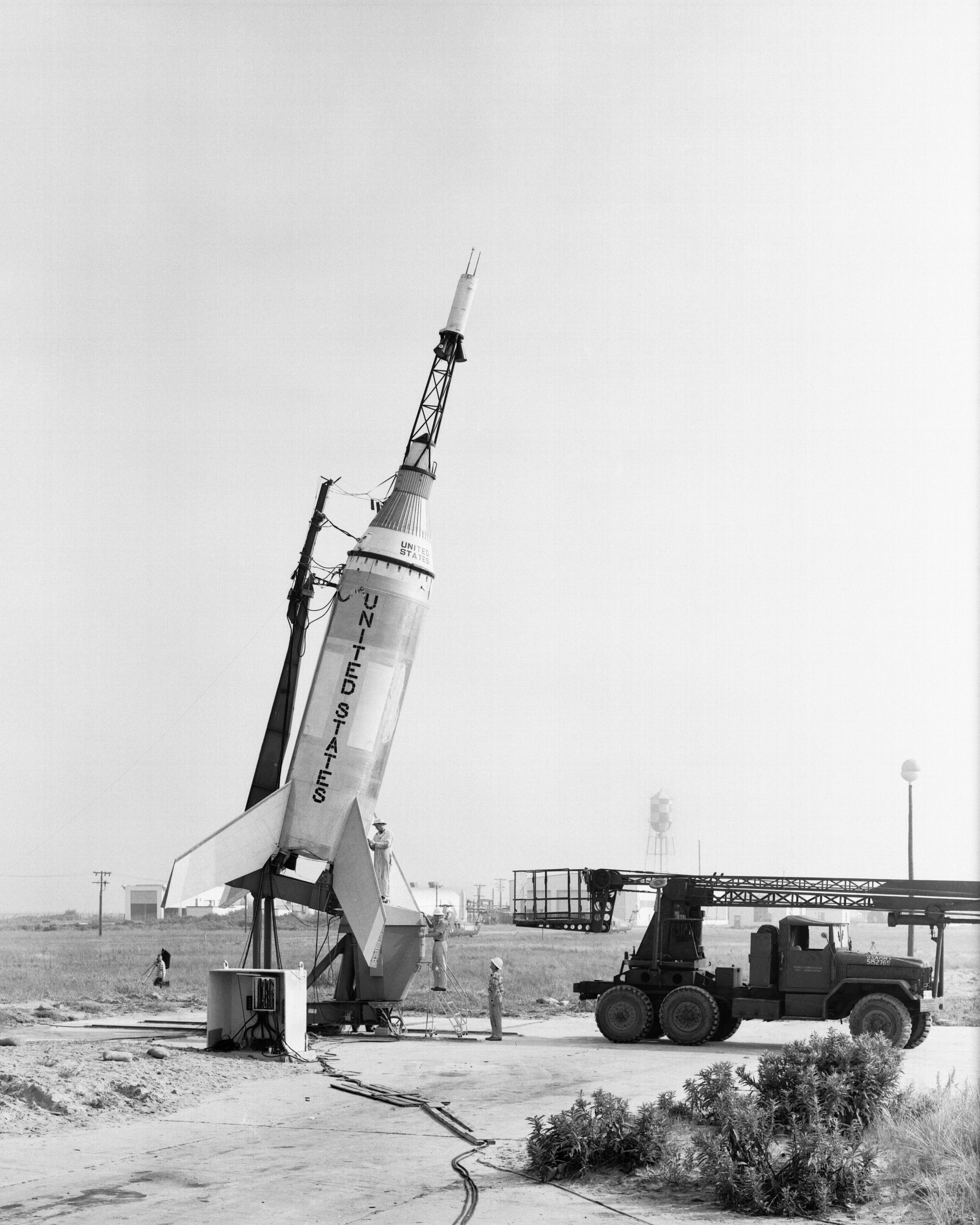 Little Joe on launcher at Wallops Island. Little Joe was a major project for Langley. It was a test of the escape and recovery systems on the Mercury spacecraft.